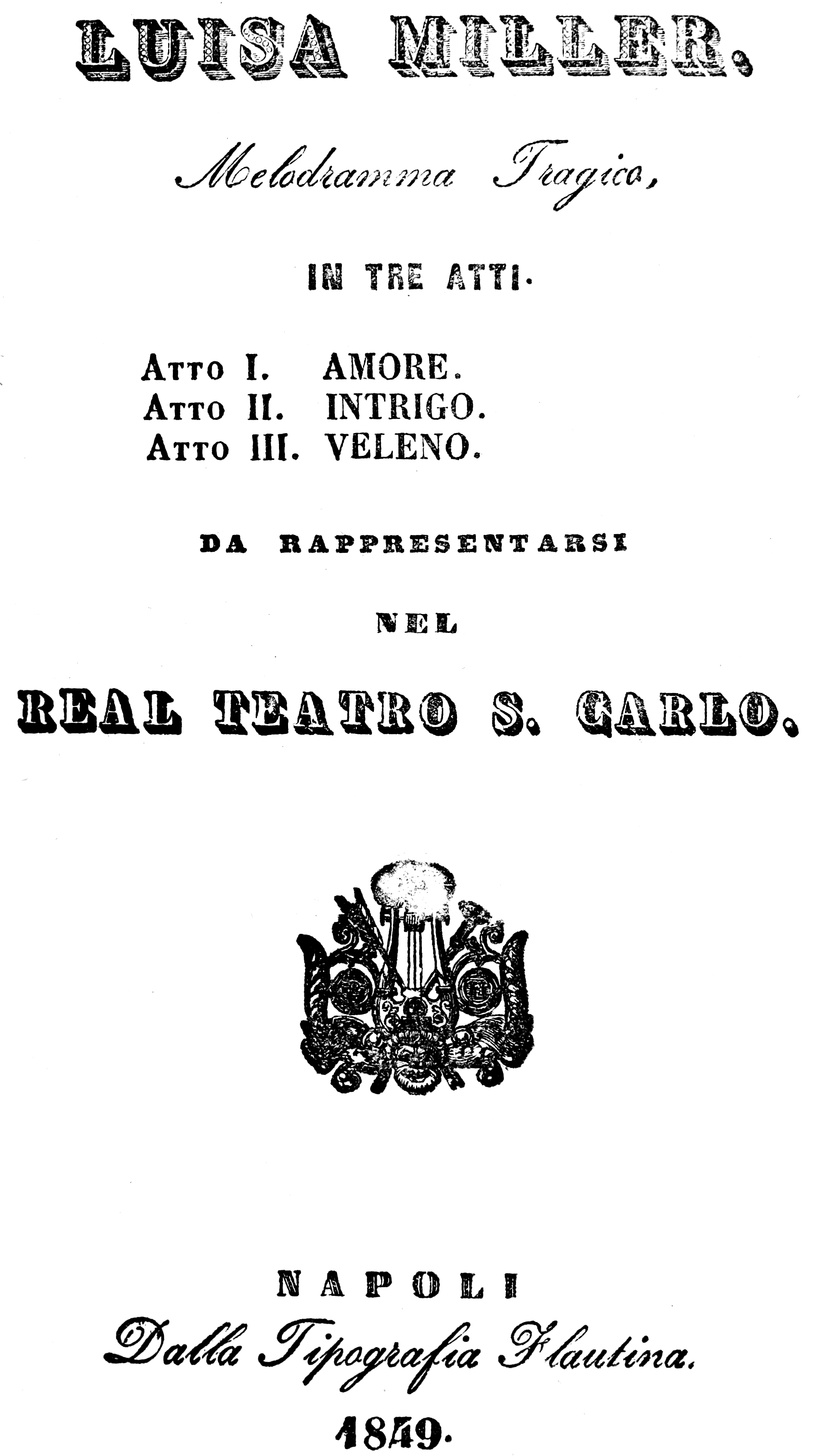 Giuseppe Verdi - Luisa Miller - titlepage of the libretto - Naples 1849